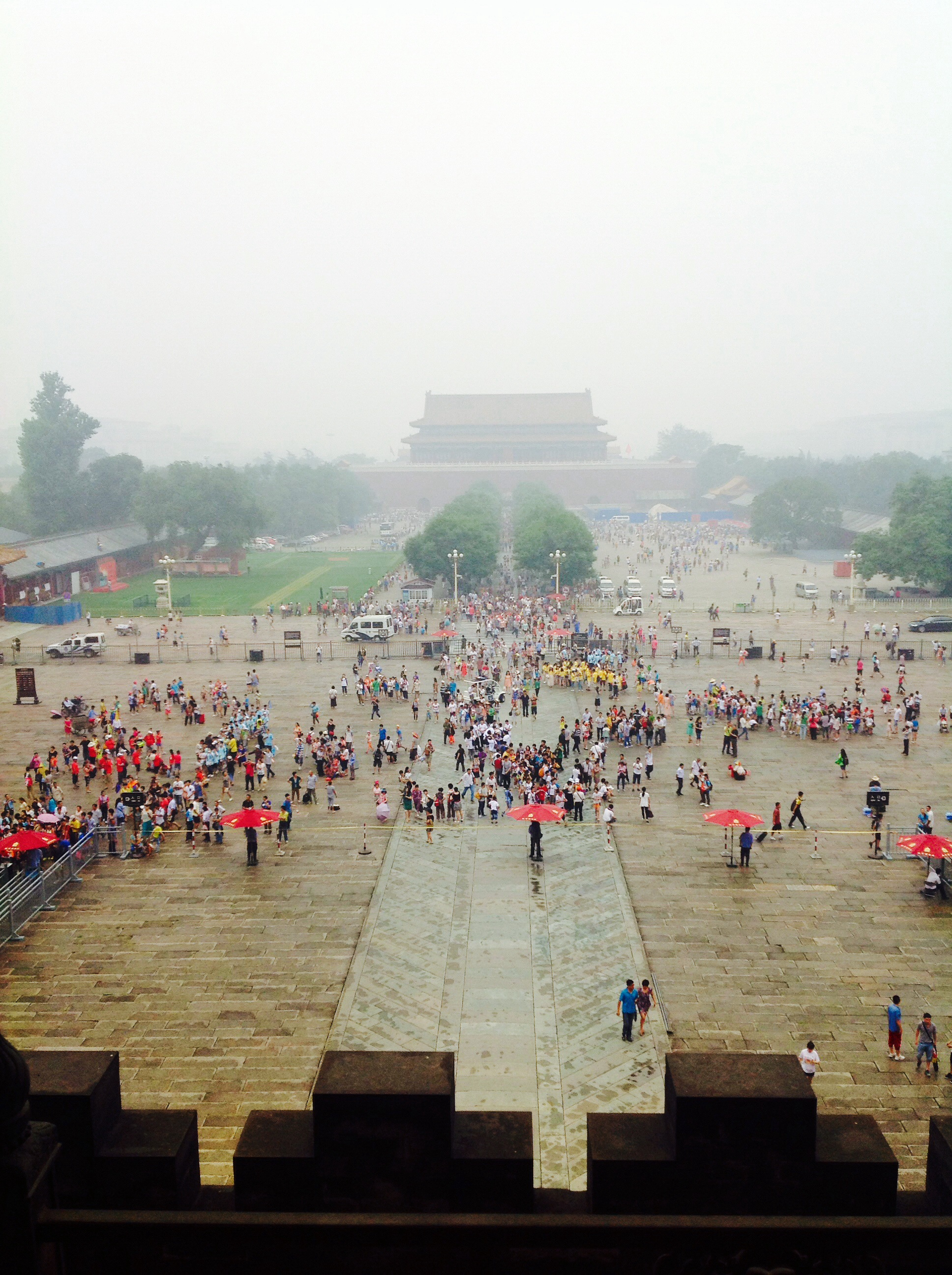 (view S) Gate of Uprightness